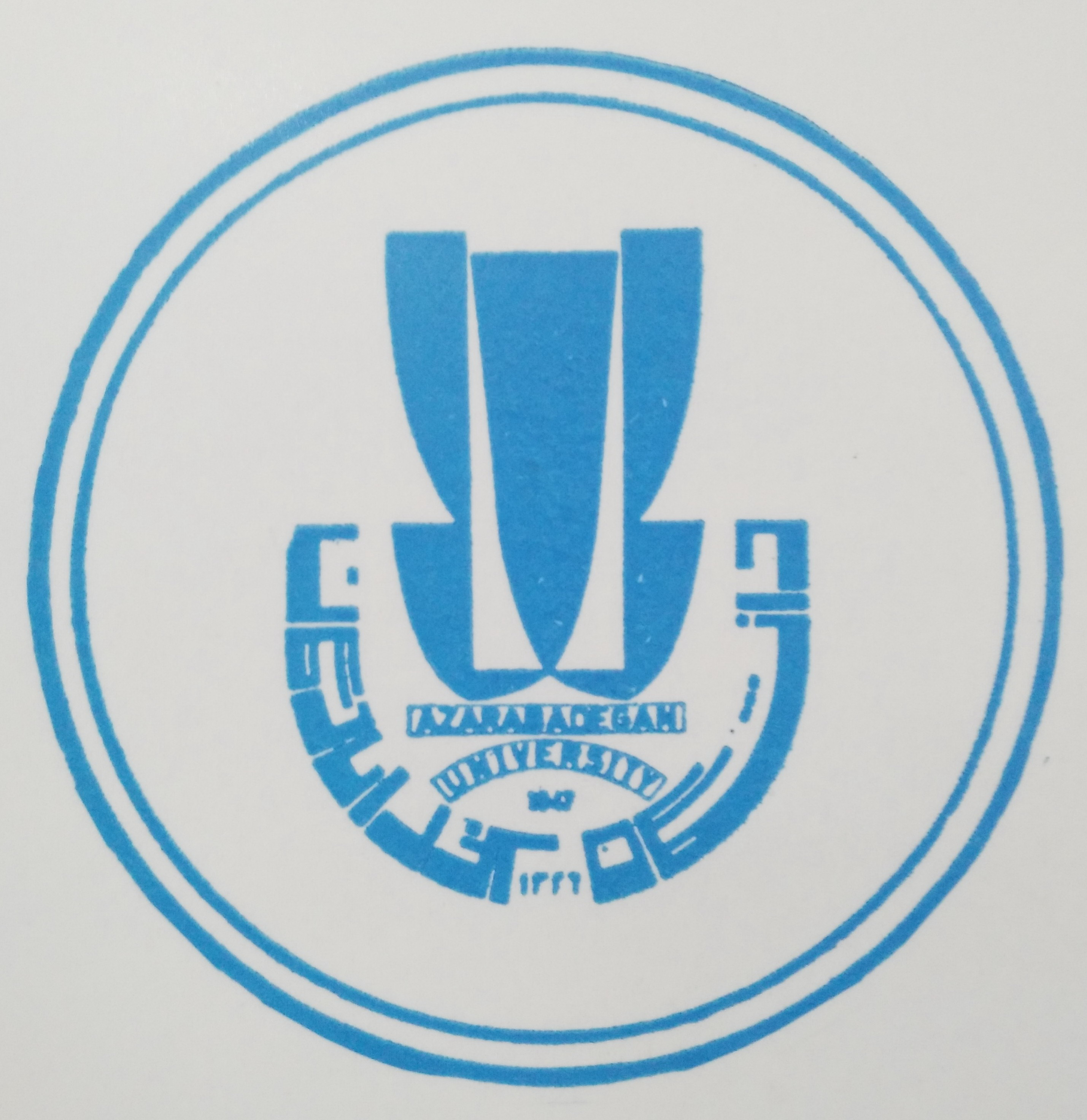 Former logo of the University of Tabriz